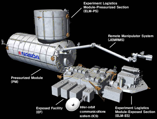 Kibō (Hope) Layout including labels for all 6 components as defined by JAXA, from previous version of this image from NASA PD.